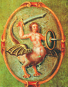 Coat of arms of Old Warsaw on the cover of an accounting book of the city.